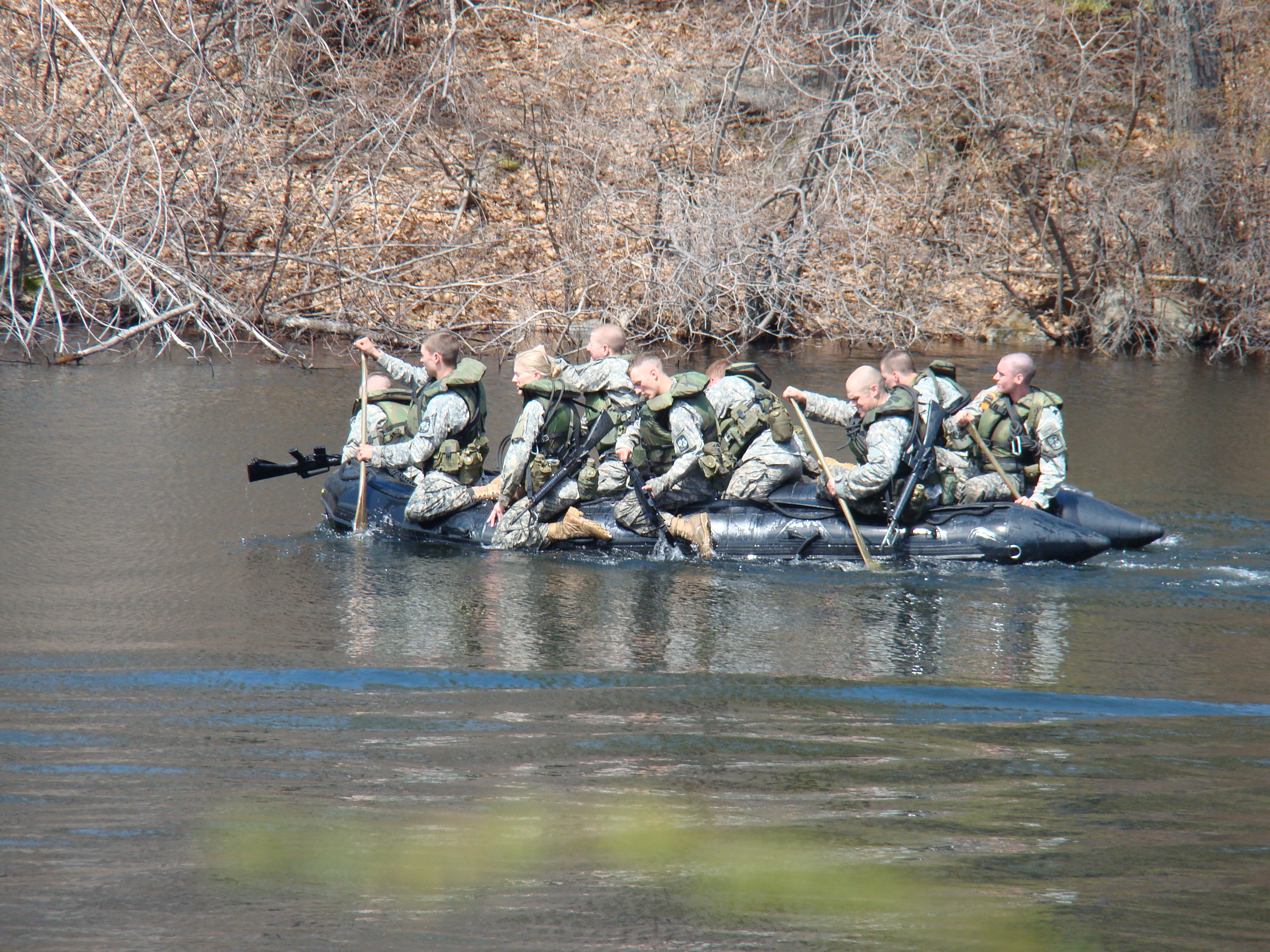 Texas A&M's Sandhurst Competition squad competes in the boat event